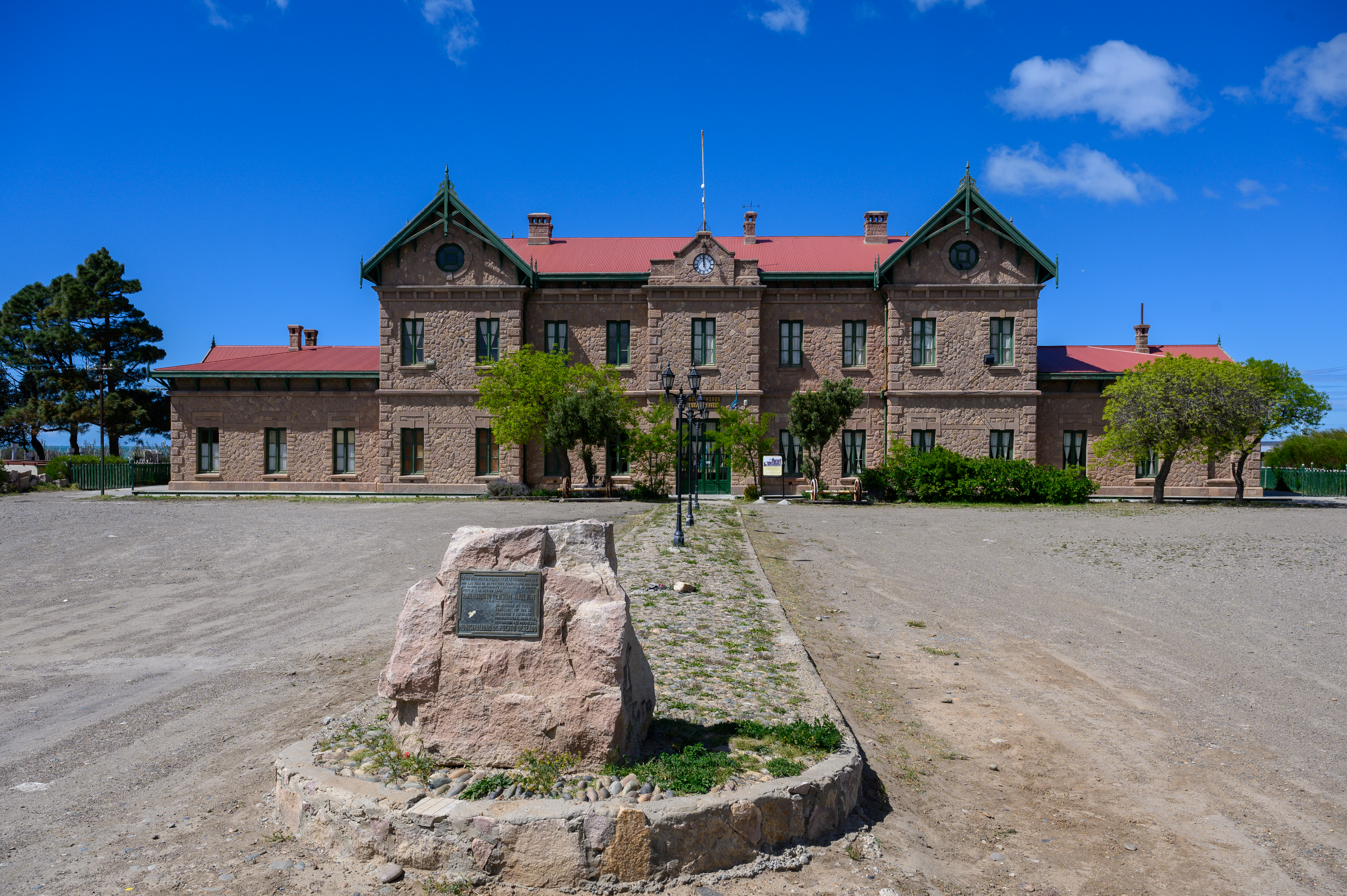 Trainstation (Museum) Puerto Deseado/Argentina